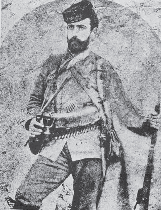 Portrait of Mihail Daev from IMARO